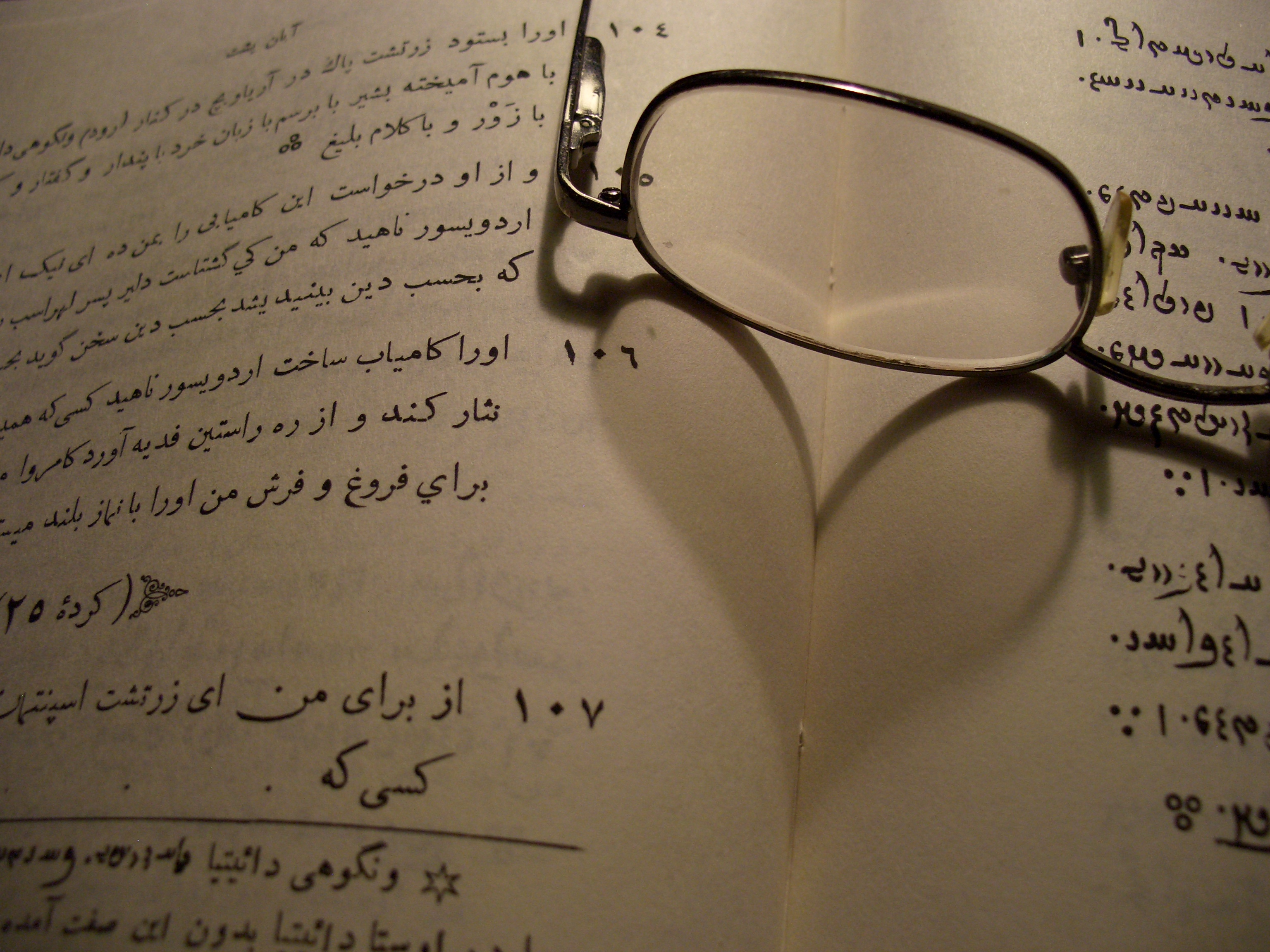 Aban yasht - yasht-haa